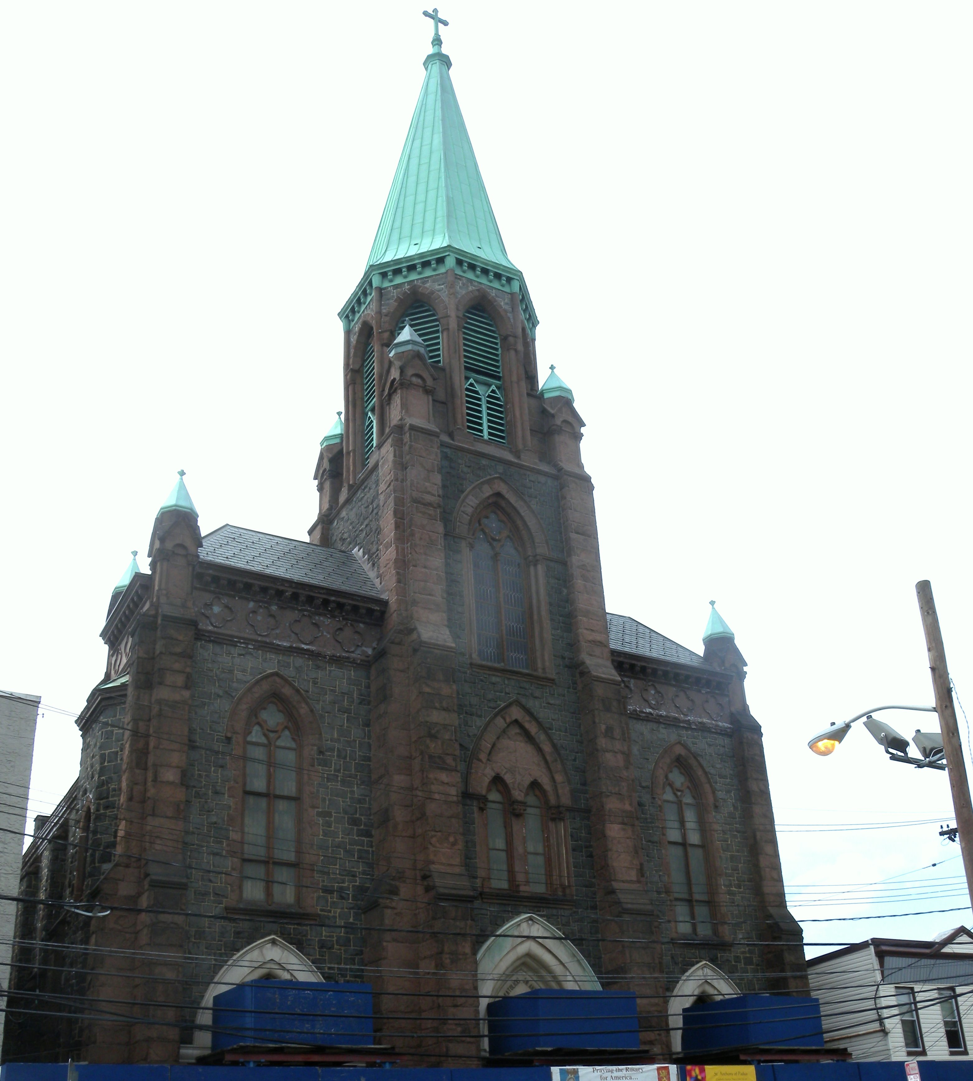 Looking northwest at St Anthony of Padua RC Church on a cloudy afternoon.